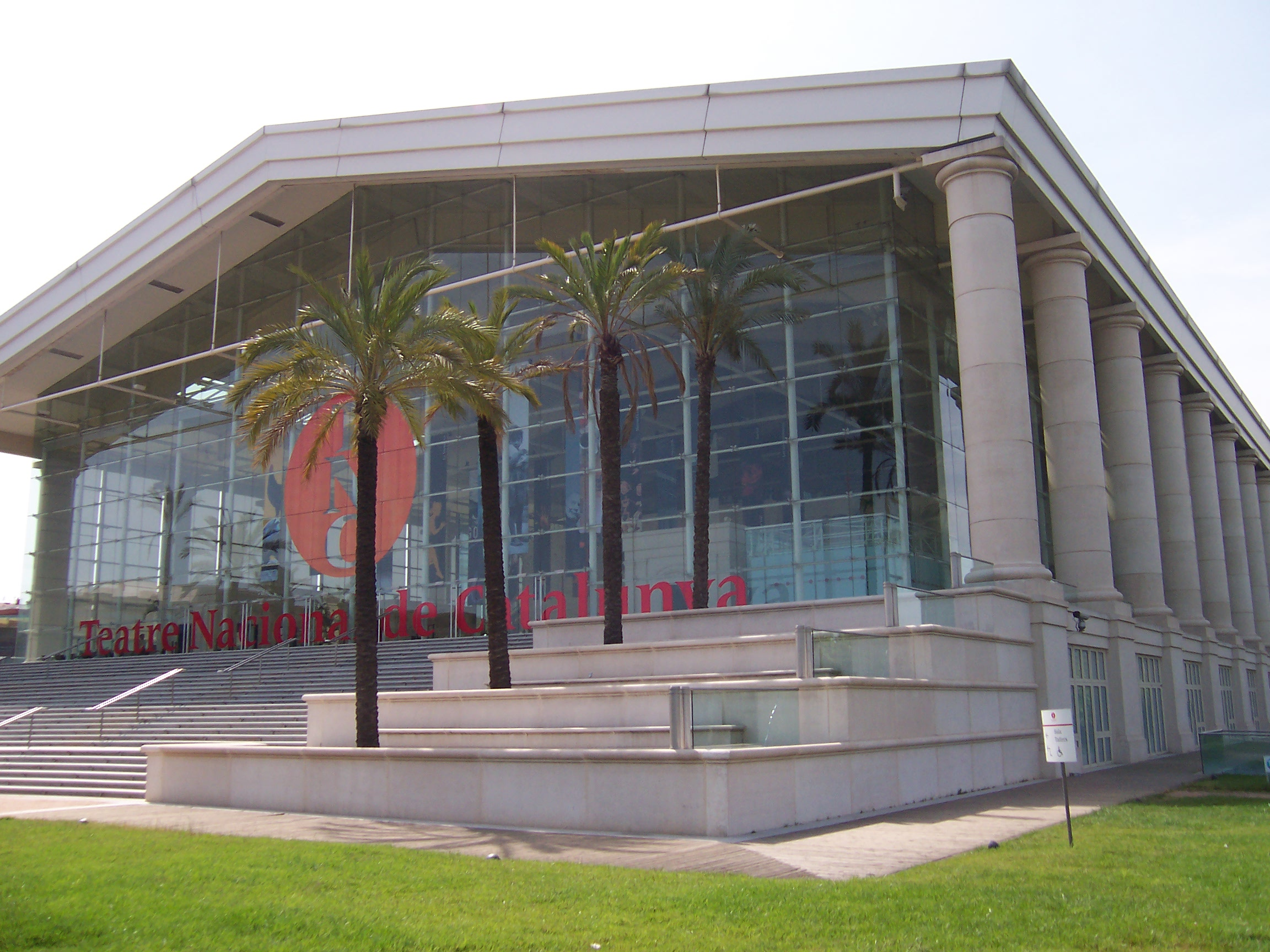 Catalunya National Theater, in Barcelona.